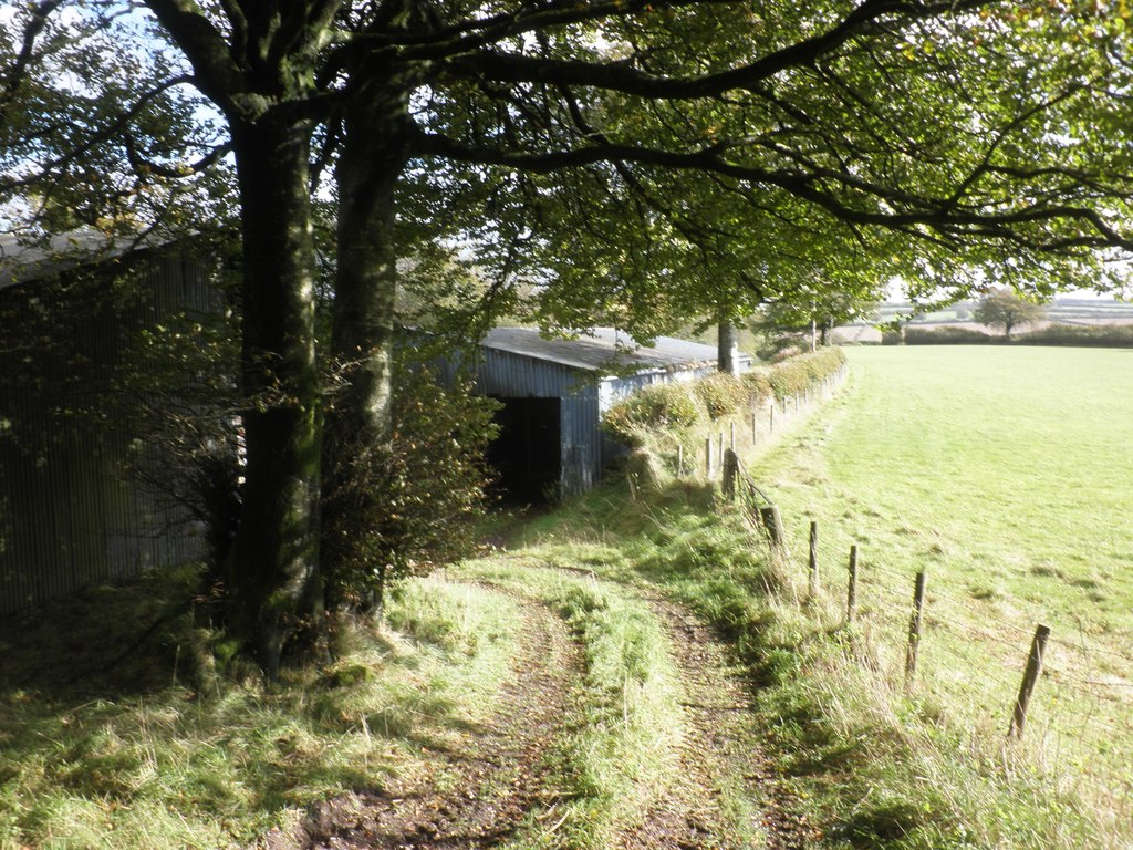 Looking down the line of the long dismantled West Somerset Mineral Railway, near Gupworthy